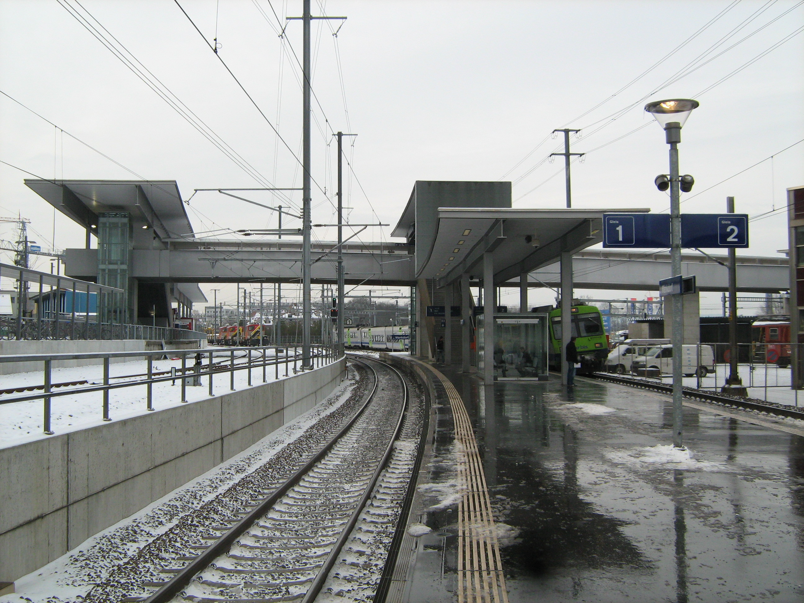 Bern Wankdorf Train Station